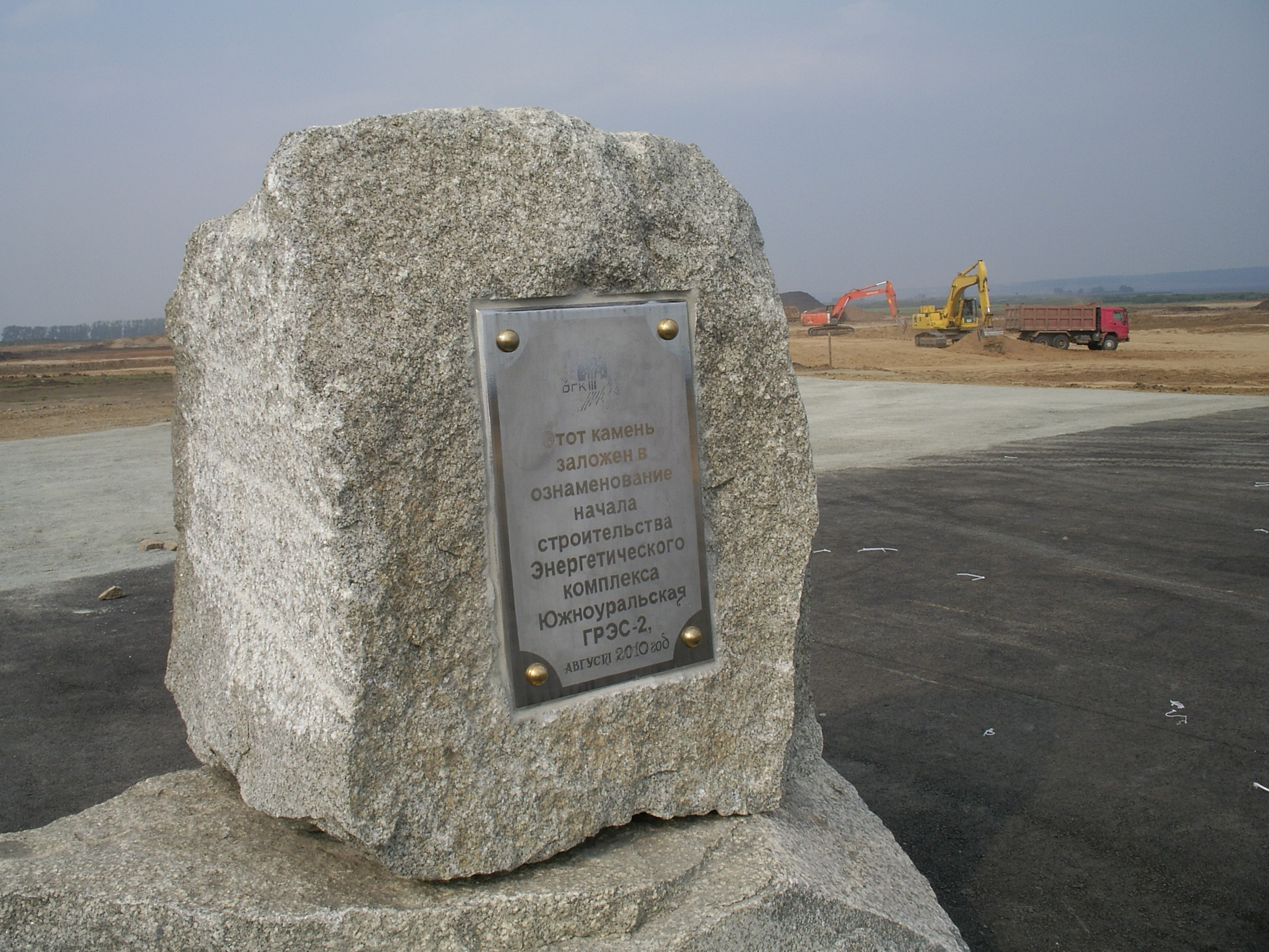 Symbolic stone at the base of Yuzhnouralsk GRES-2